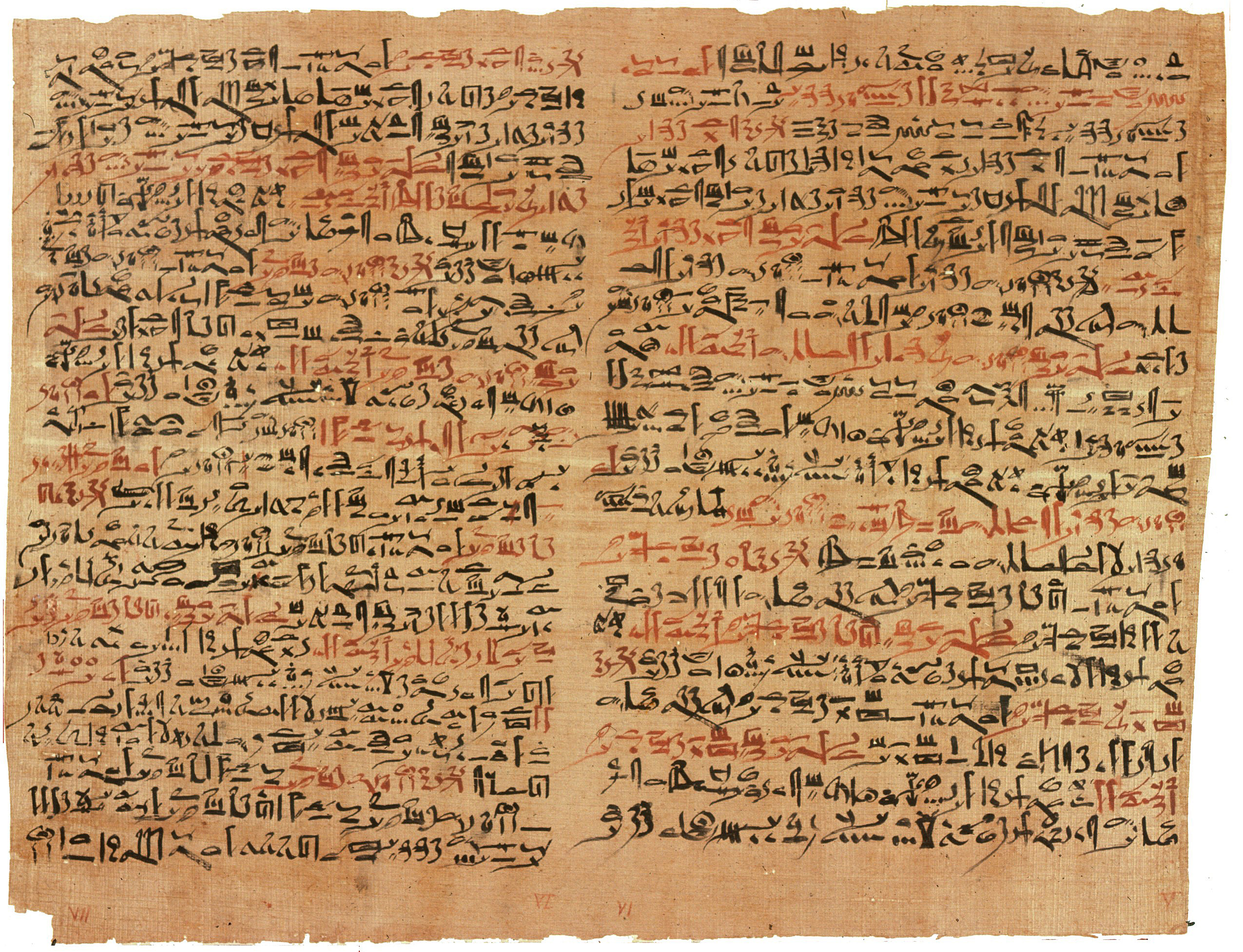 Edwin Smith Papyrus, Recto Column 7 (left) and Column 6 (right), containing Cases 12-20.